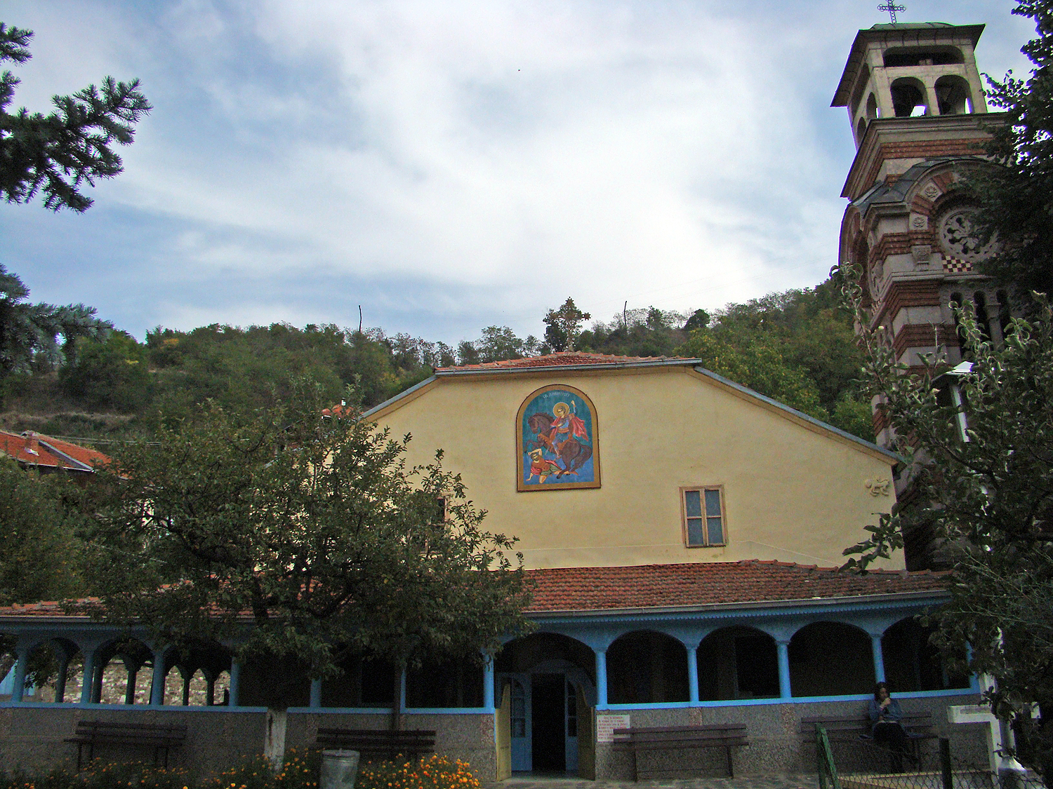 St. Demetrius Church in Kriva Palanka, Macedonia